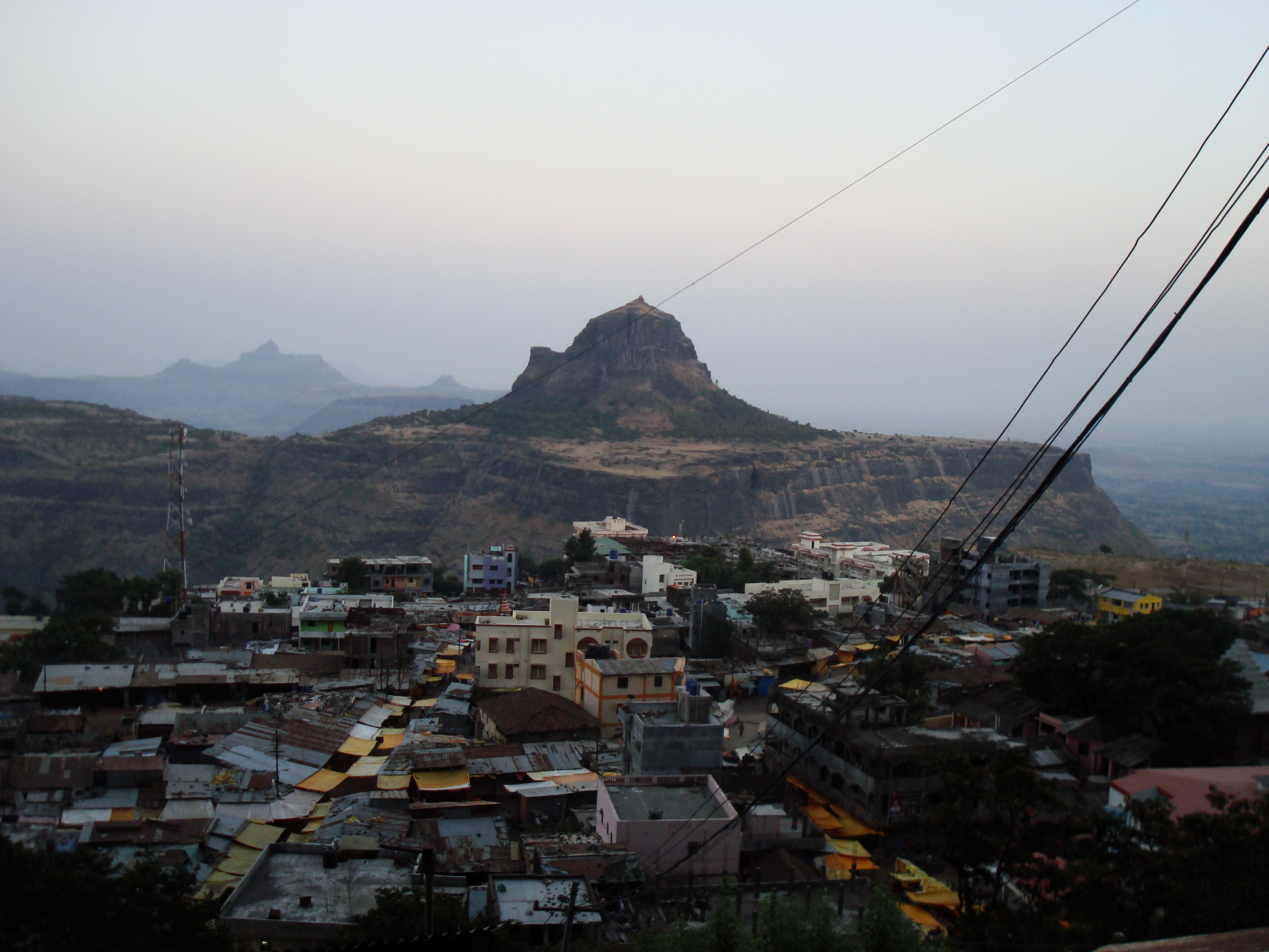 Vani as seen from the Saptashrungi gad.